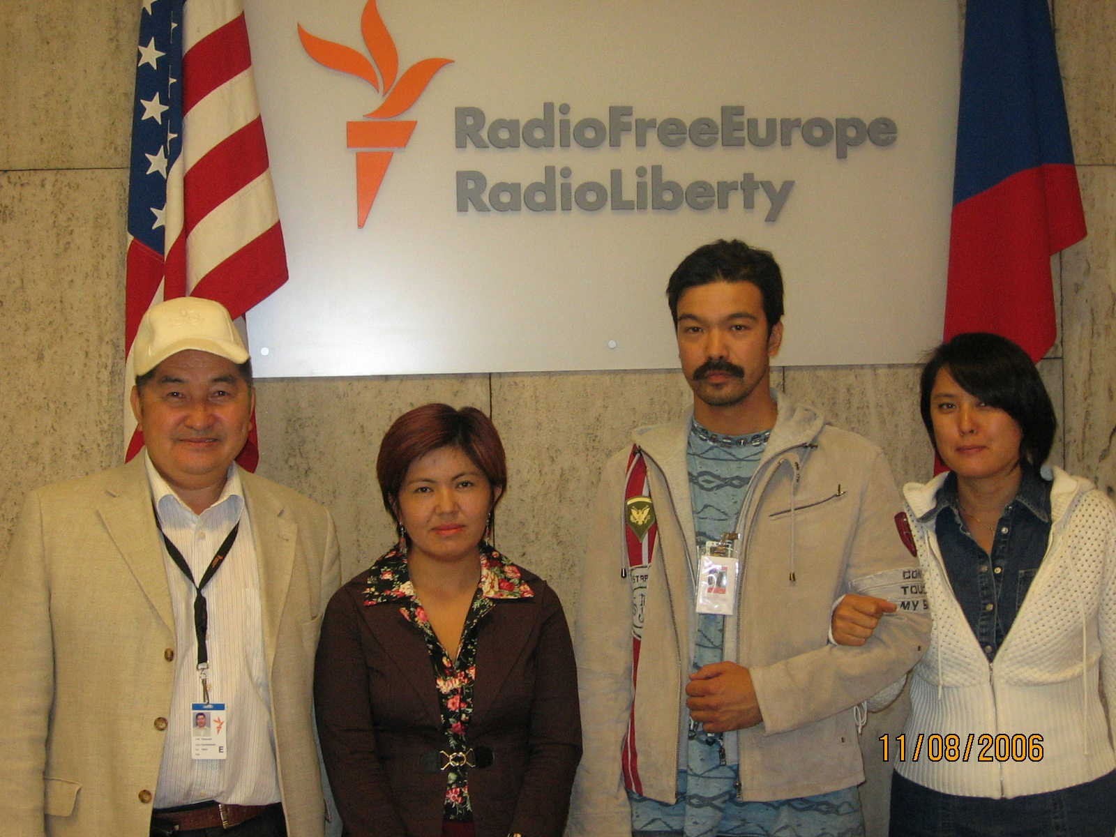 The Kyrgyz journalists Jangyl Jusupjan (right), Cholpon Orozobekova and Dr. Tynchtykbek Chorotegin together with a film actor Aziz Beishenaliev (second on the right) at the RFE/RL headquarters in Prague. 11 August 2006.